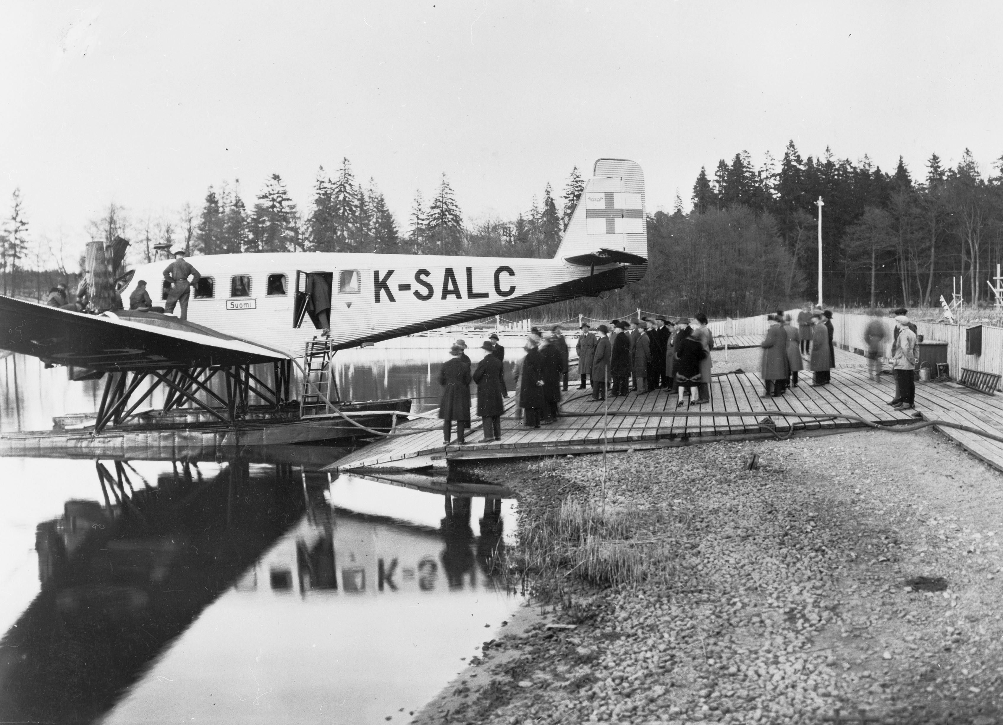 Aero O/Y Junkers Ju-G24 (K-SALC) at Lindarängens flyghamn in Stockholm, Sweden